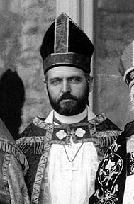 The consecration of Reginald Heber Weller as an Anglican bishop at the Cathedral of St. Paul the Apostle in the Protestant Episcopal Diocese of Fond du Lac. Rt. Rev. Joseph M. Francis, Episcopal Bishop of Indianapolis